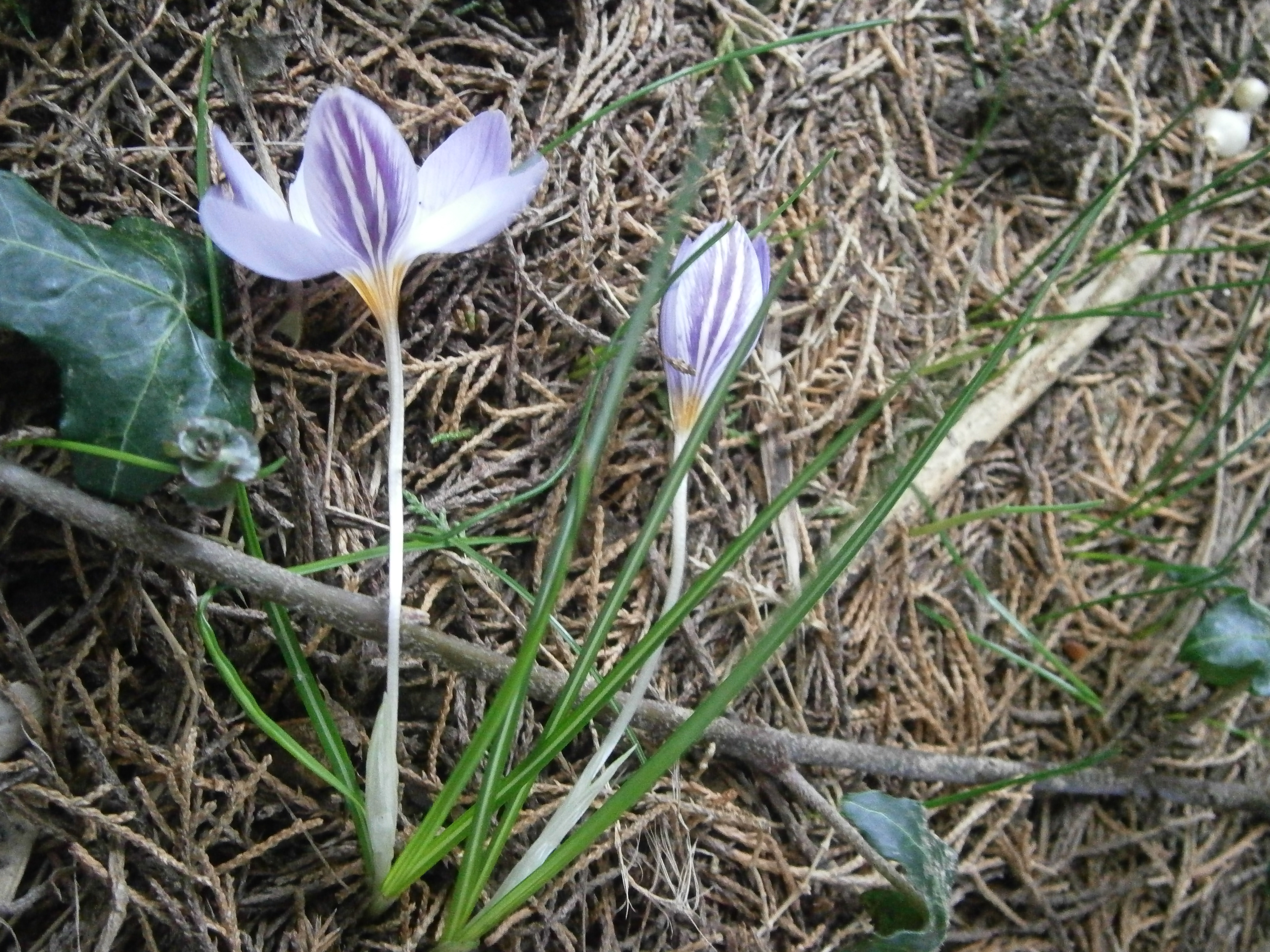 Crocus laevigatus 'Fontenayi'